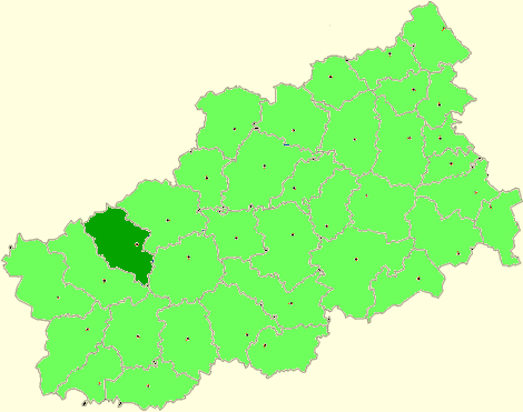 Tver Oblast map by Al Silonov